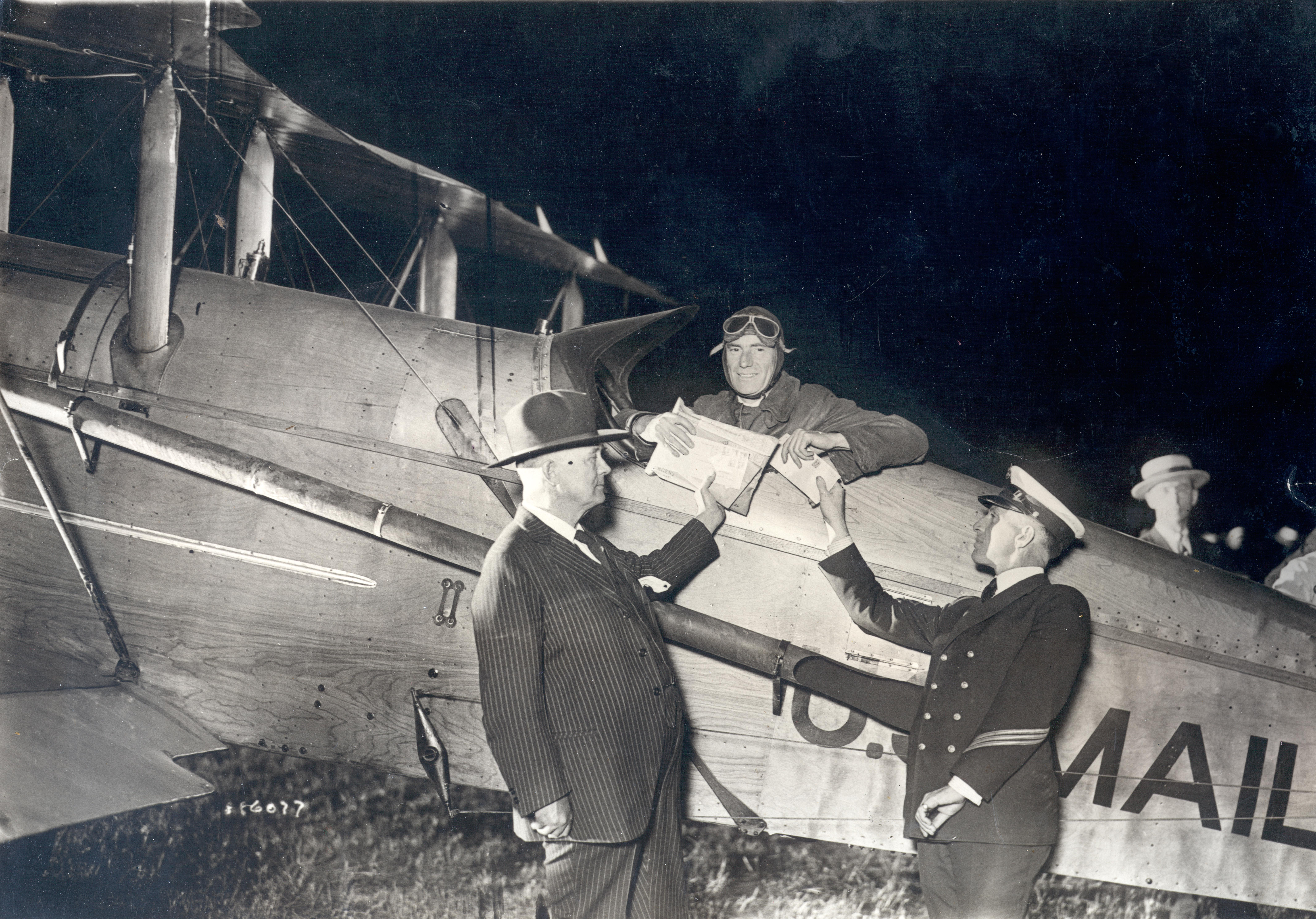 US Postmaster General Harry S. New posed with airmail pilot James D. Hill and an unidentified military officer for the start of regularly scheduled transcontinental night and day airmail flights. New is shown presenting Hill with a ceremonial bundle of mail that was added to the cargo. As Hill prepared to take off from Hadley Field, New Jersey, hundreds of cars lined the field with their headlines on, adding their lights to those of the field for his take off shortly before 9 pm on July 1, 1925.